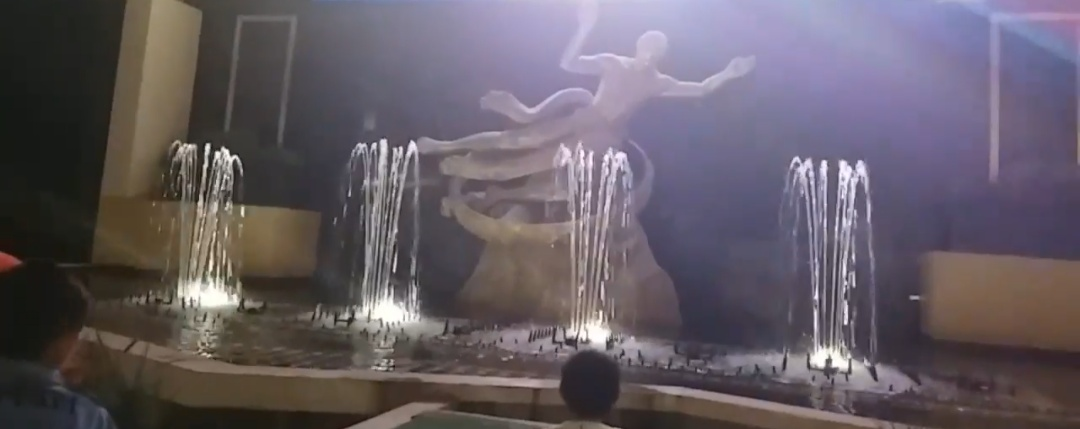 Waltzing waters